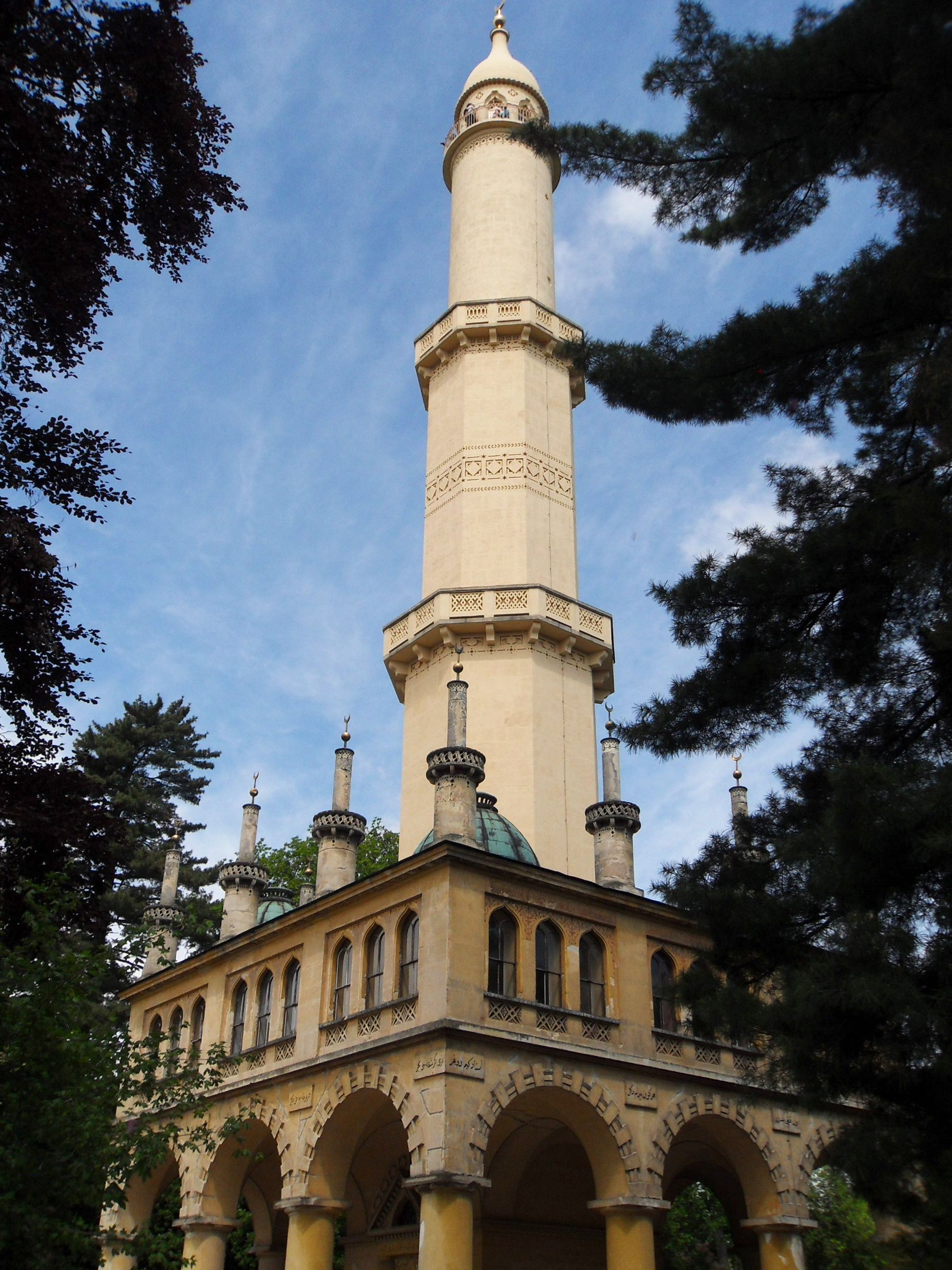 Minaret, Lednice, Břeclav district, Czech Republic